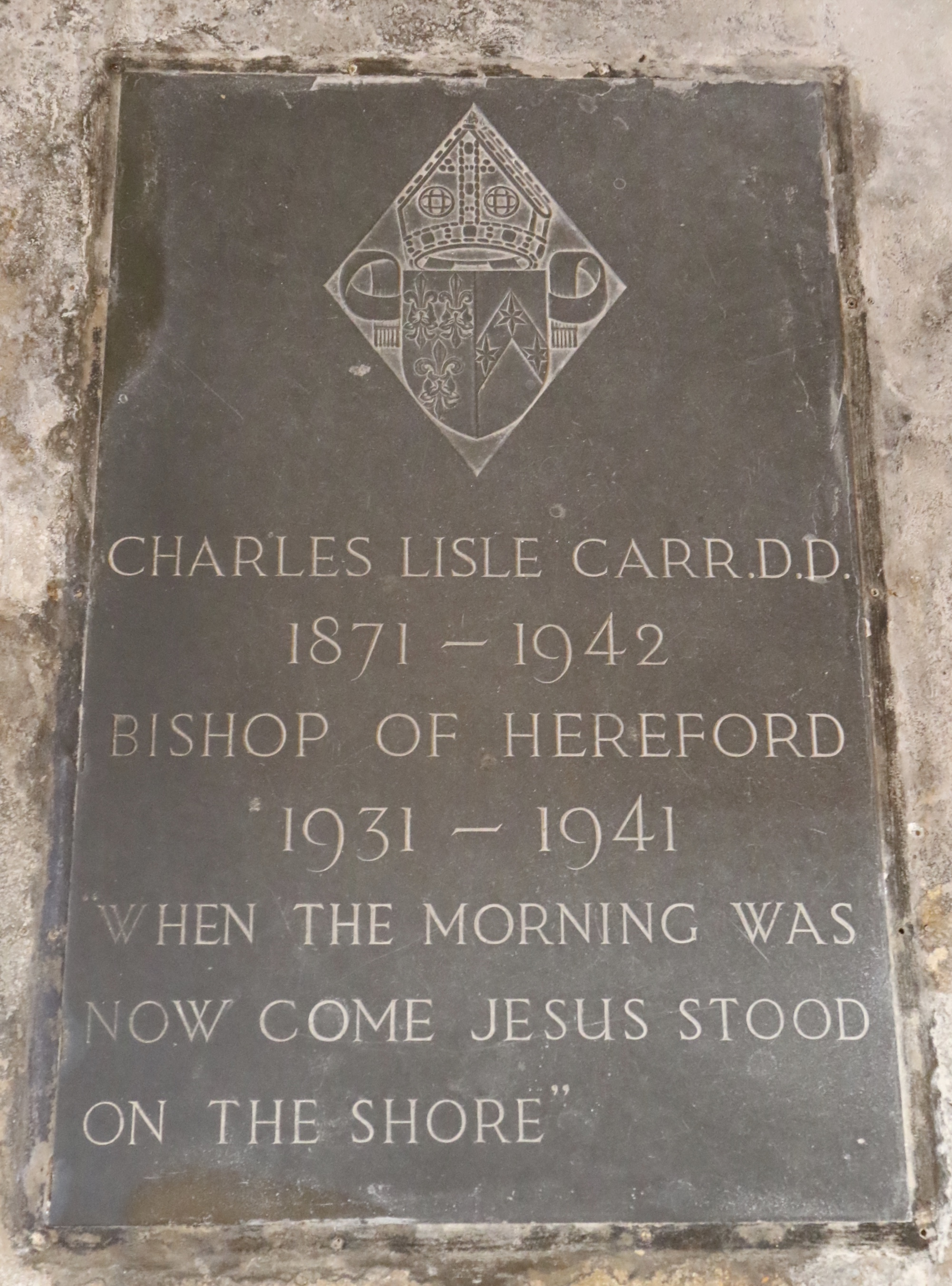 Charles Lisle Carr D.D. 1871-1942 Bishop of Hereford 1931-1941